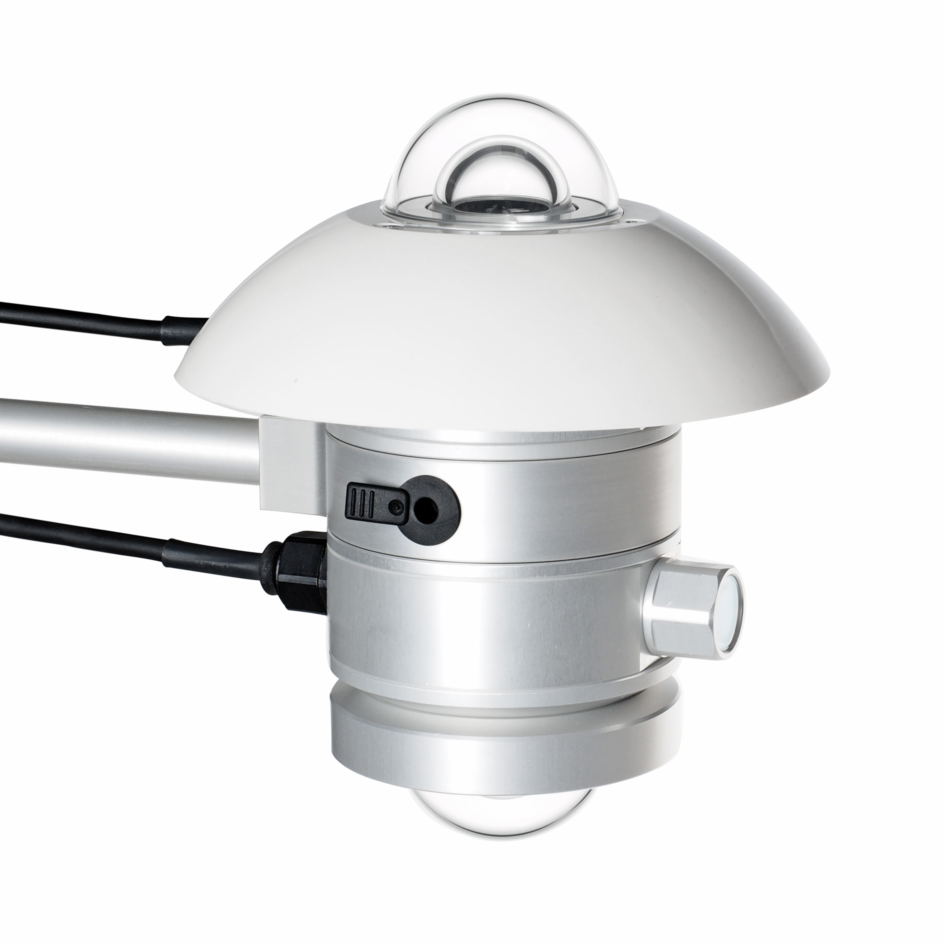 Albedometer (Hukseflux SRA11)